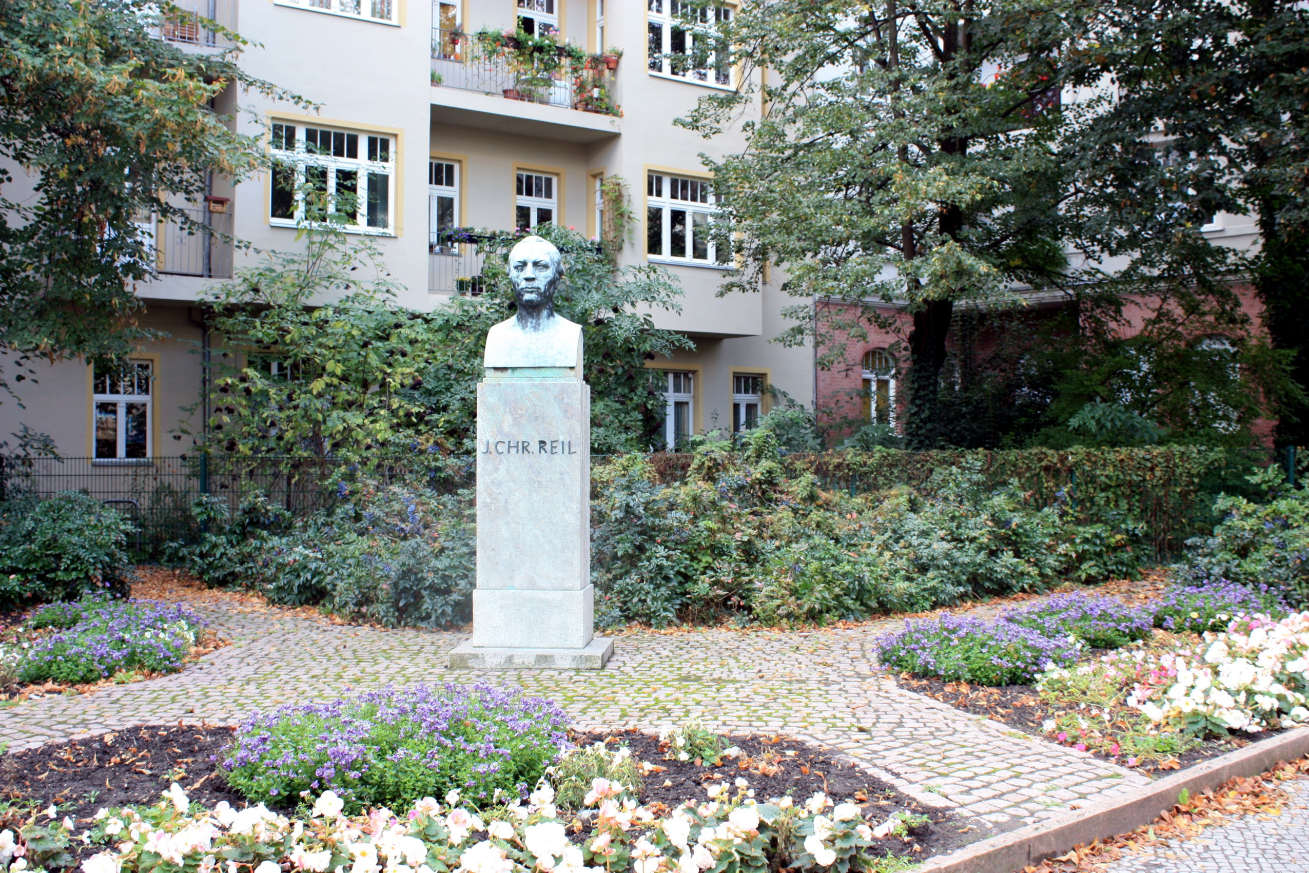 Halle (Saale), Halle (Saale), bust of Johann Christian Reil